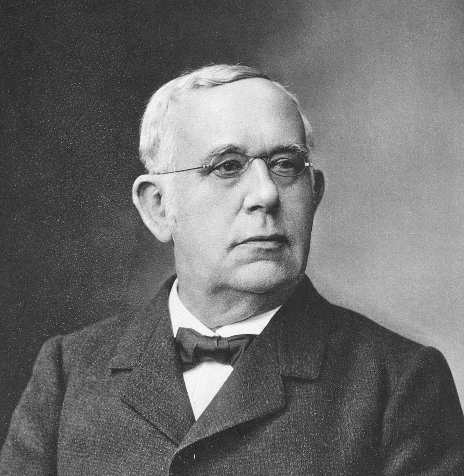 photograph of Danish physicist Adam Frederik Wivet Paulsen (* 2. Januar 1833, † 11. Januar 1907)